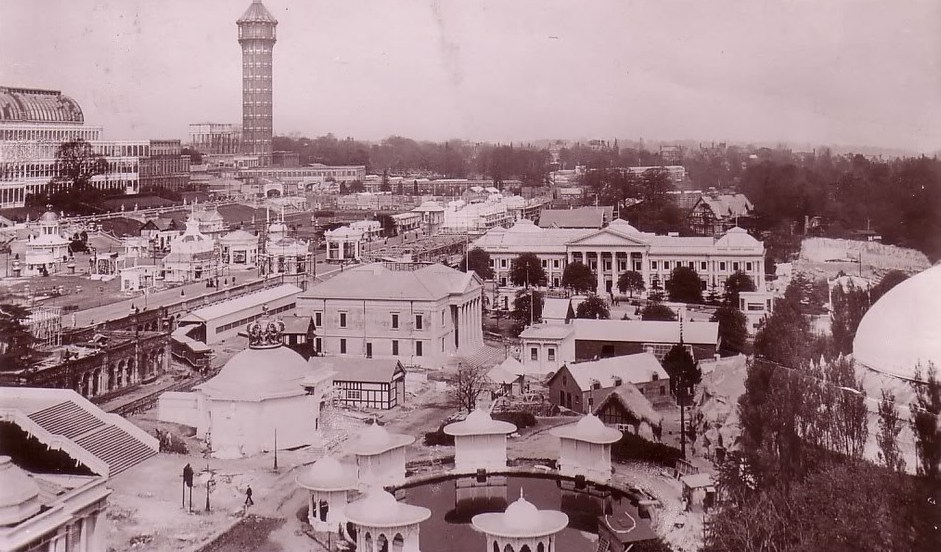 Festival of Empire at the Crystal Palace in South London. 1911. Taken from the replica Canadian parliament building